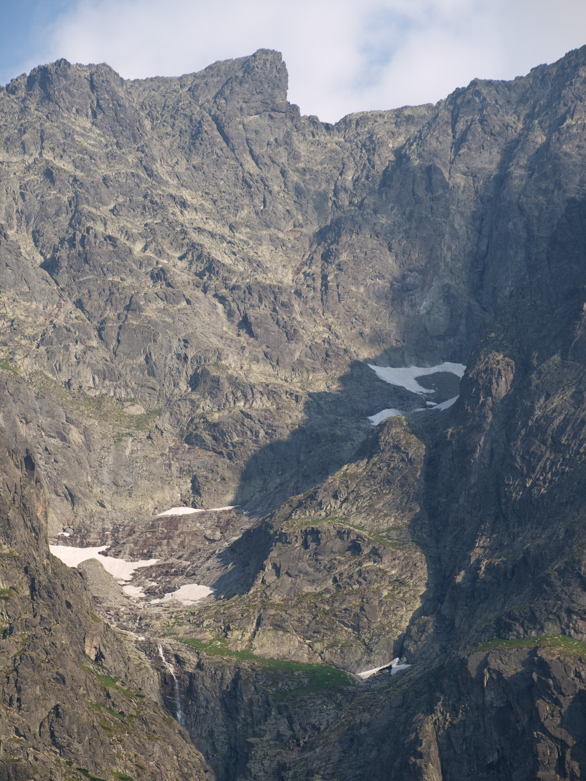 Snehový štít and Vyšné Ľadové sedlo above Ľadová dolinka